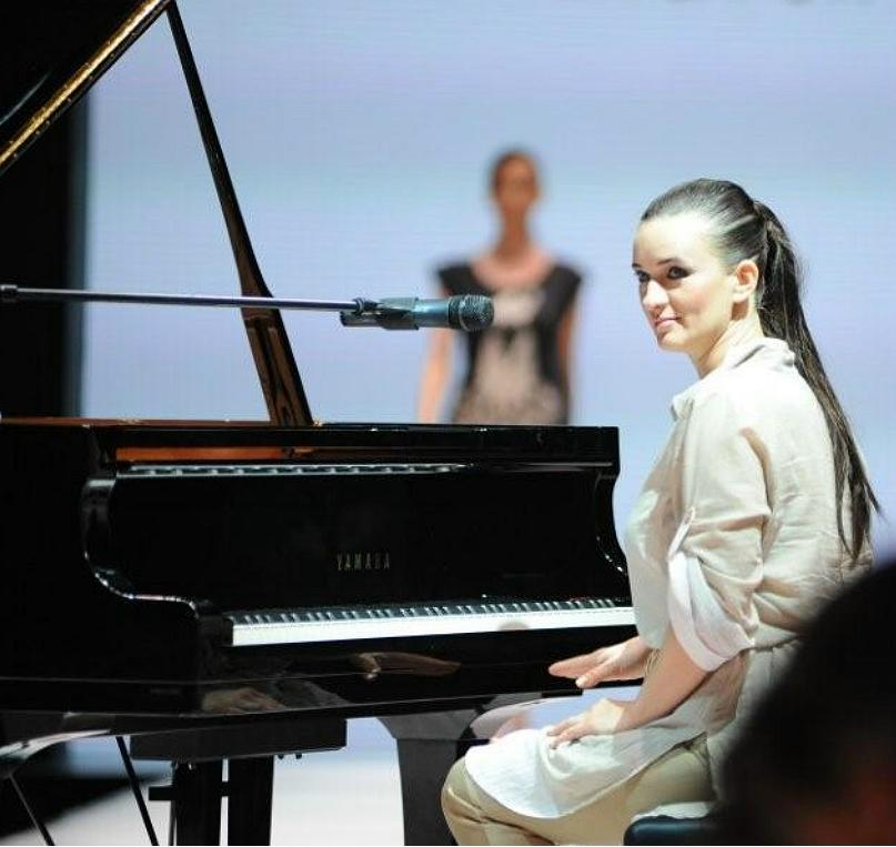 Photo depicts Anjelika Akbar with her piano